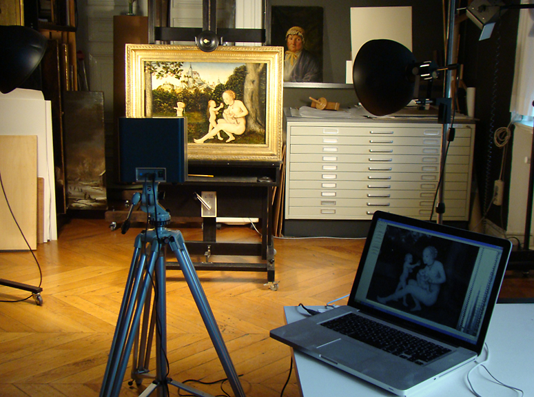 Infrared reflectographic research on a painting by Lucas Cranach at Kunsthalle Hamburg with IRR camera Opus Osiris by